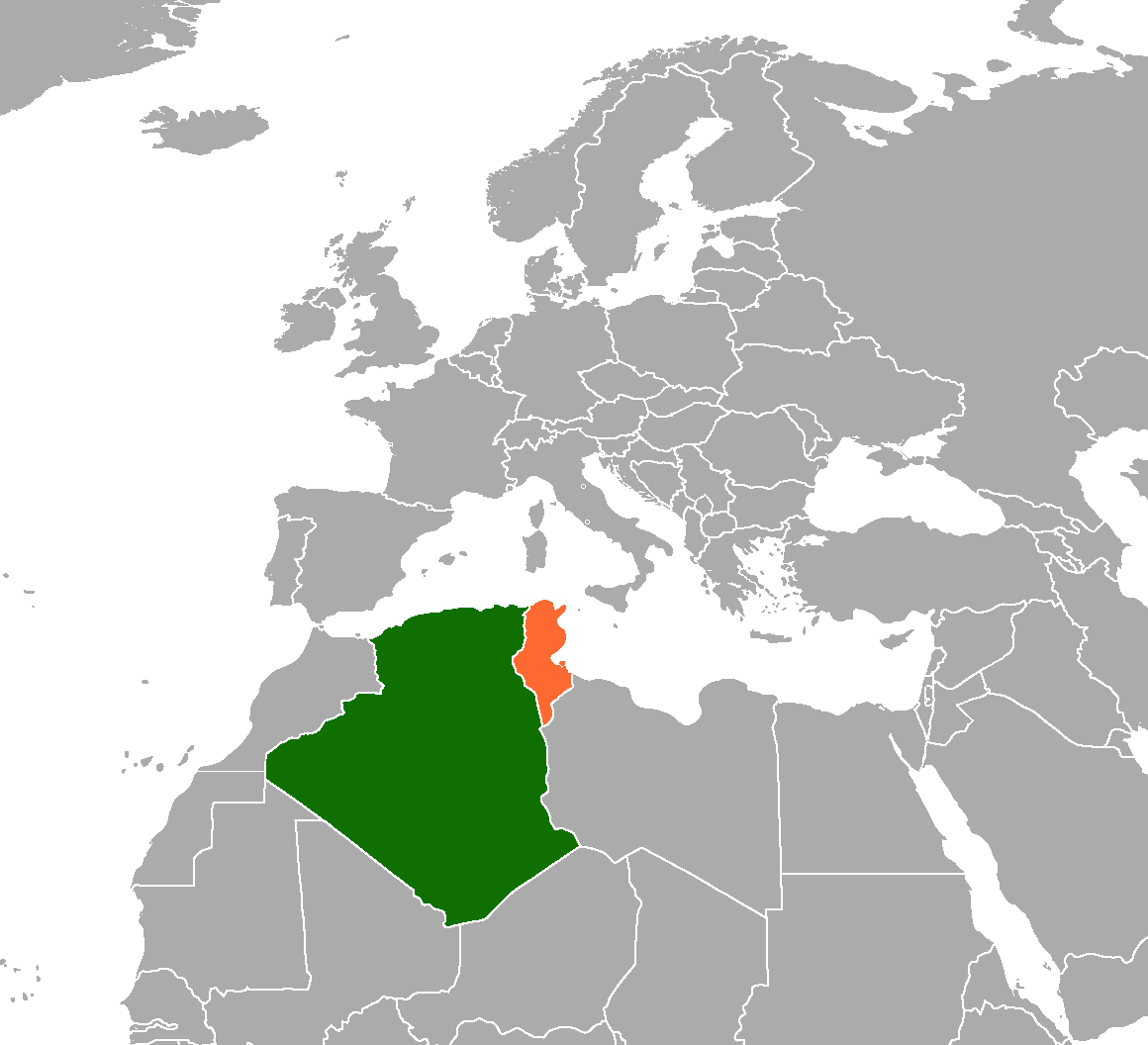 Locator map showing Algeria and Tunisia